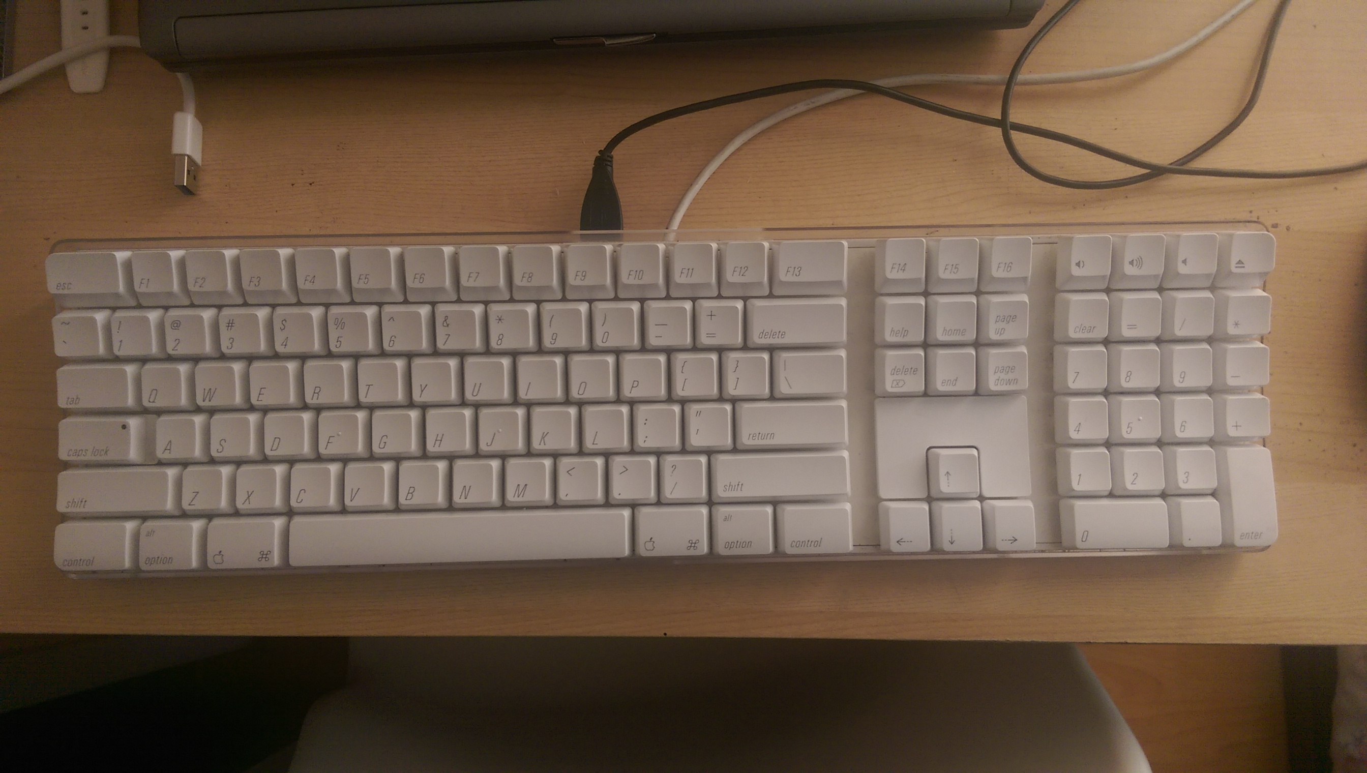 This is an Apple Keyboard (A1048), US layout.